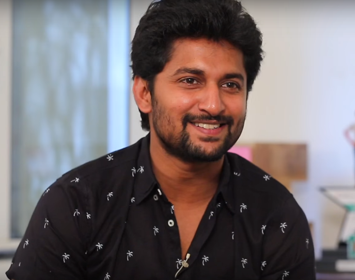 Nani at an interview for film companion